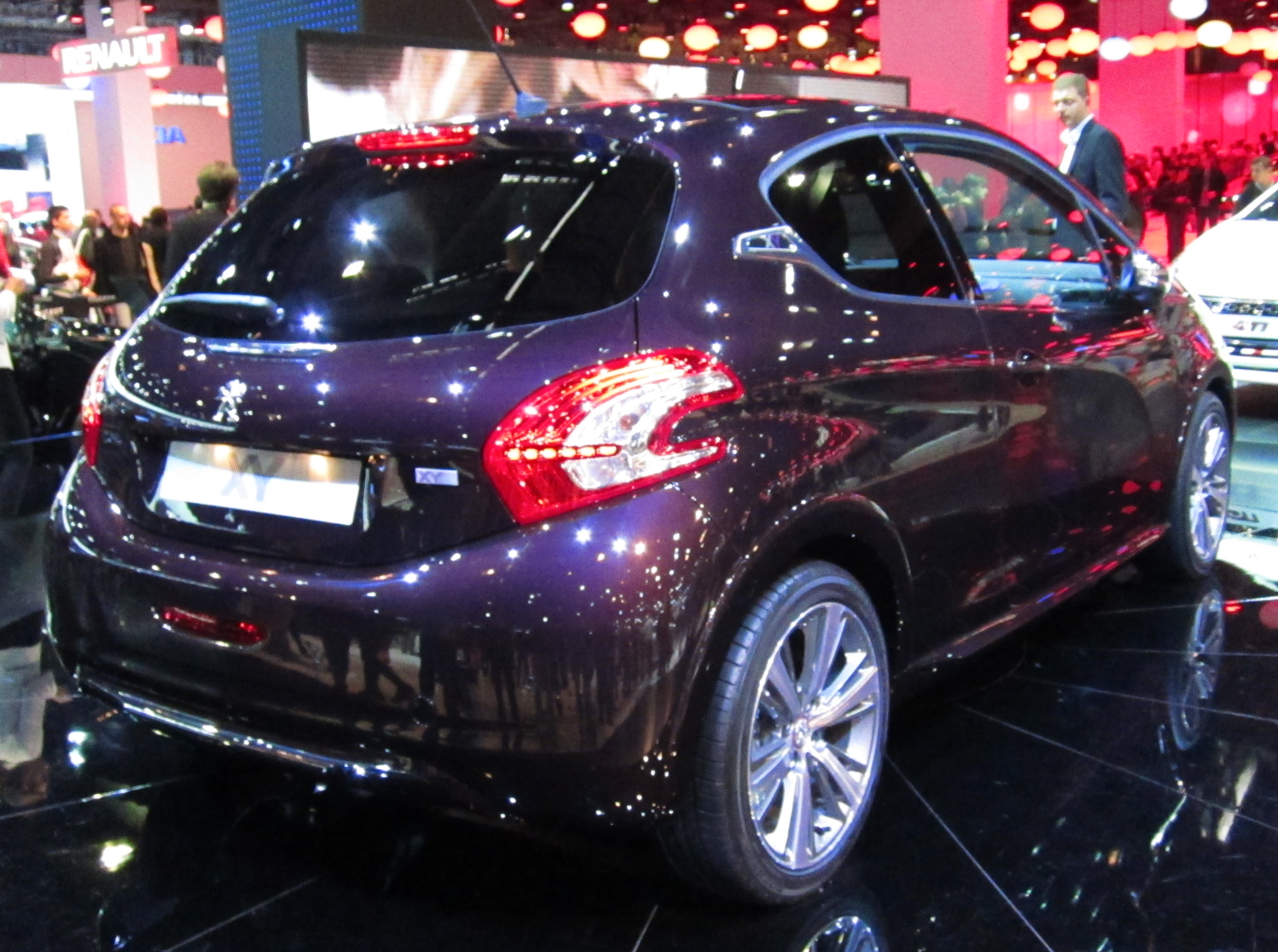 Peugeot 208 XY at Mondial de l'Automobile Paris 2012